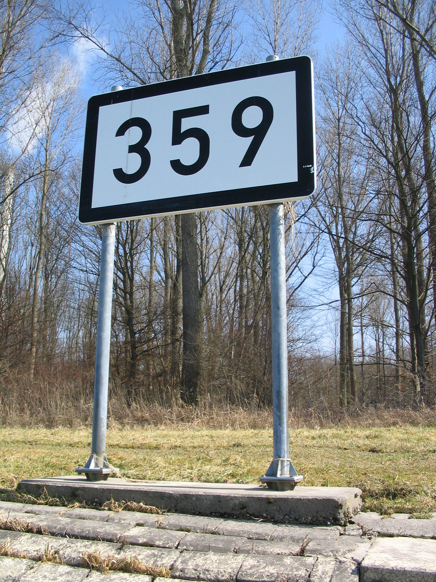 Kilometer sign at the Rhine near Karlsruhe, Germany